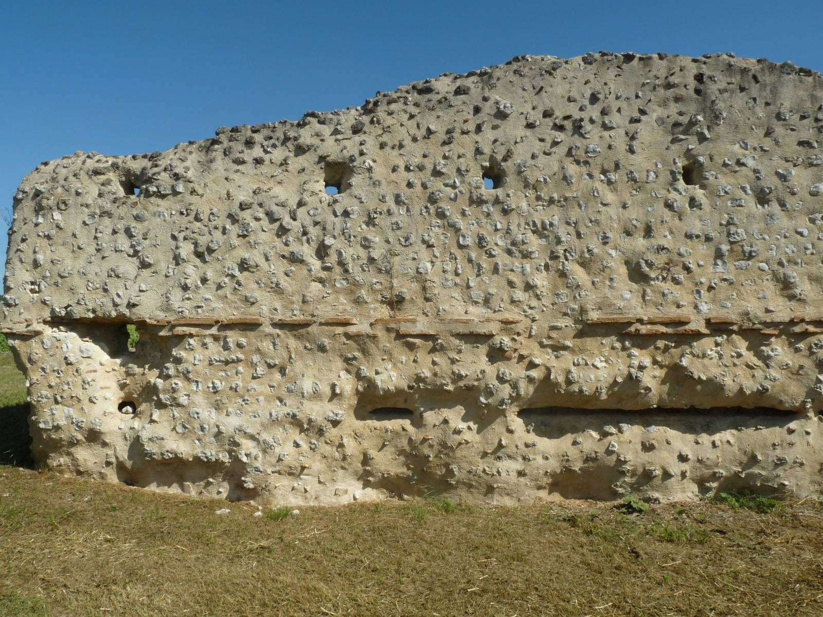 roman villa of Lacou Dauzena at Brossac, Charente, SW France